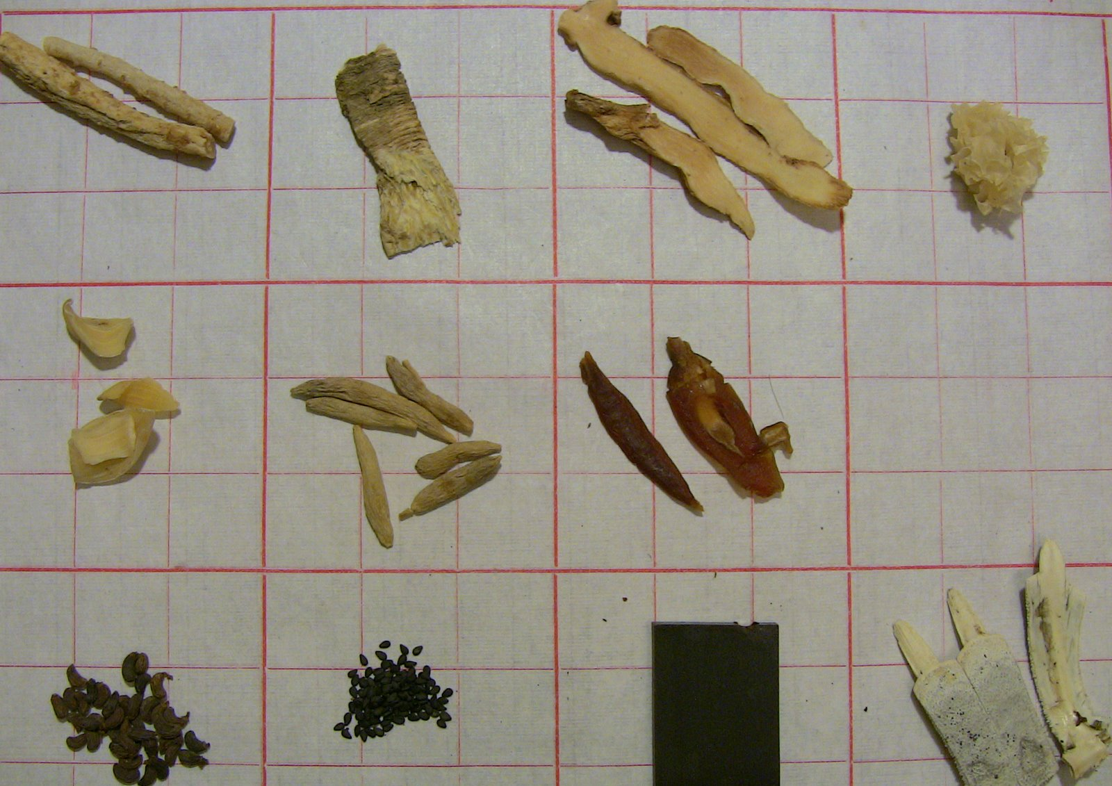 Pictures of herb samples from categories of Chinese Herbs Tonifying Herbs: Herbs that Tonify the Yin